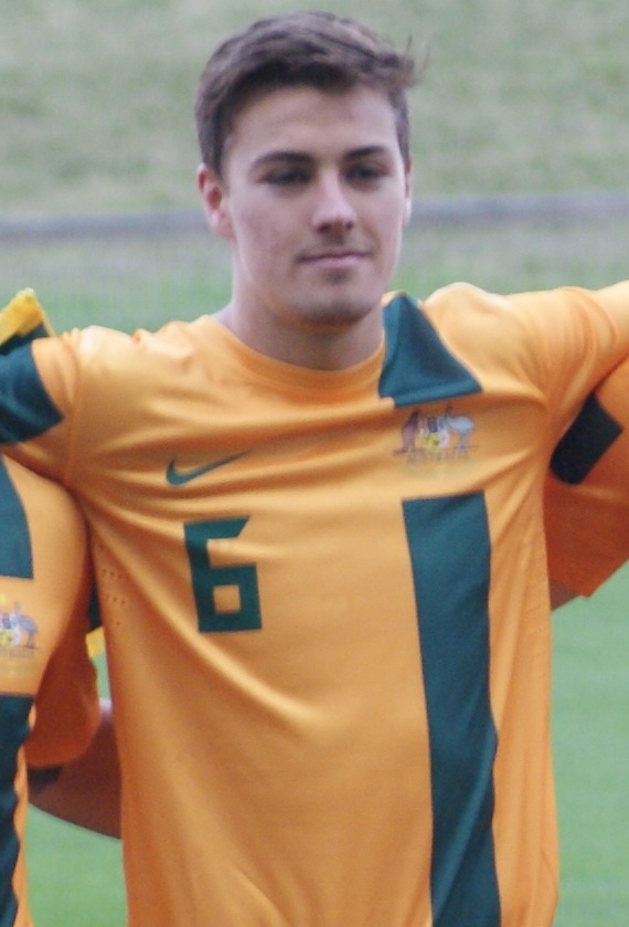 Young Socceroos vs New Zealand